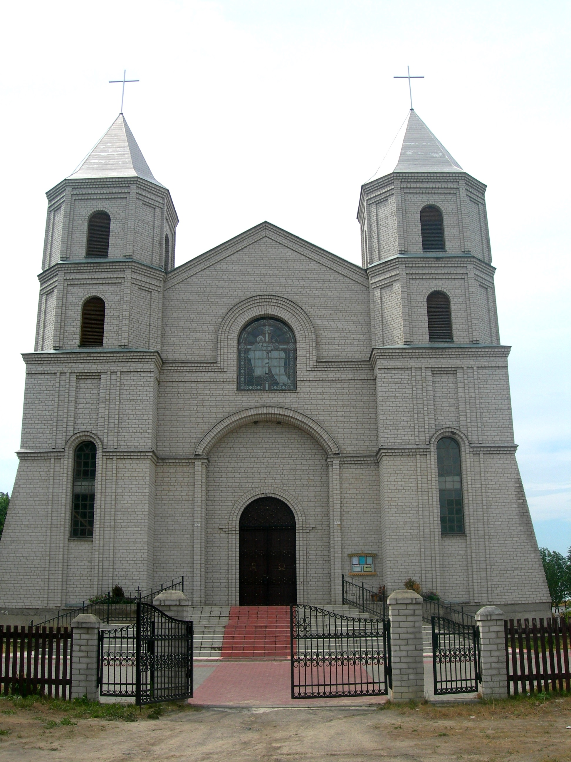 Catholic Church in Biaroza, Belarus